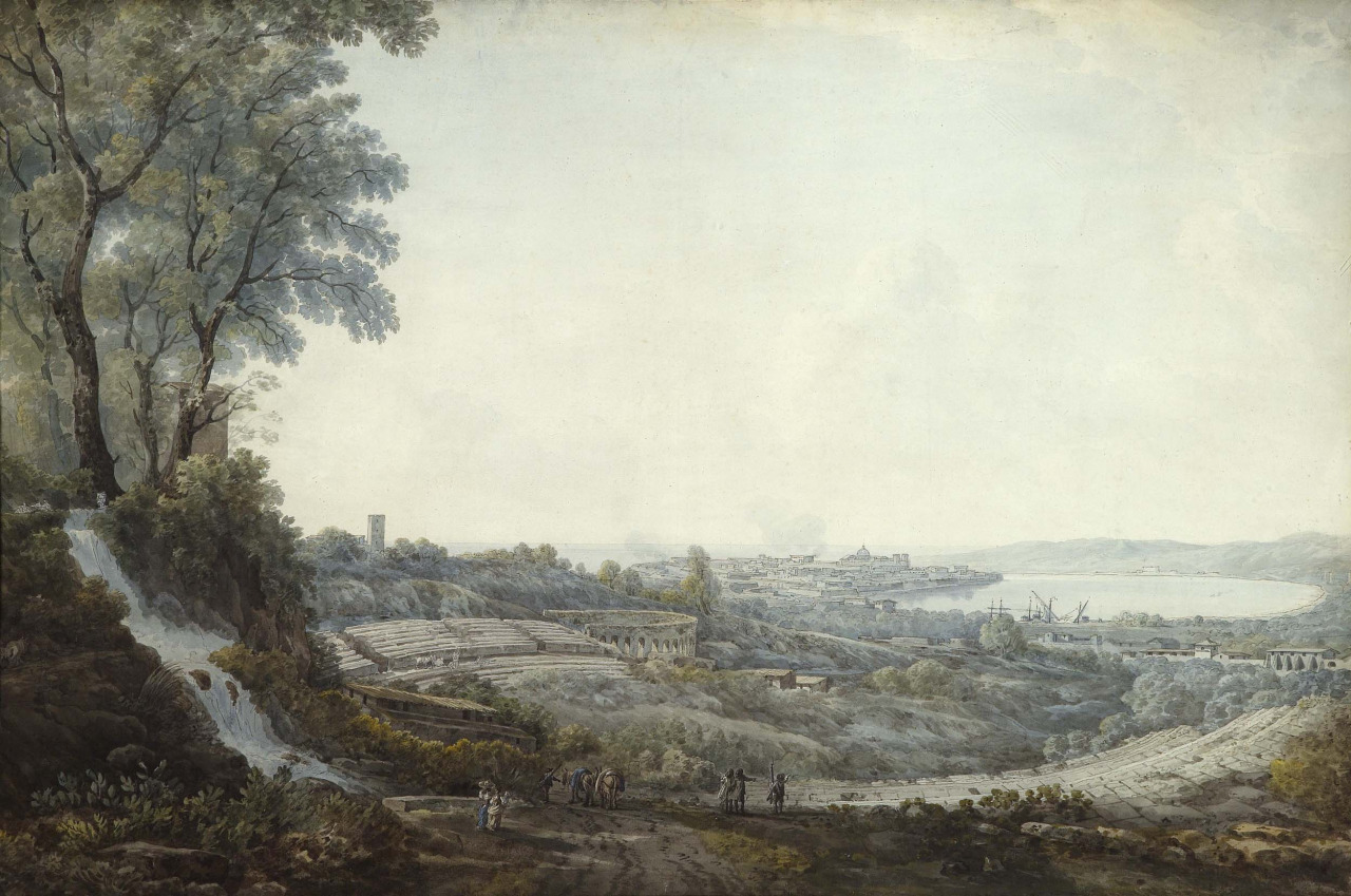 Panoramic View of the Greek Amphitheatre at Syracuse